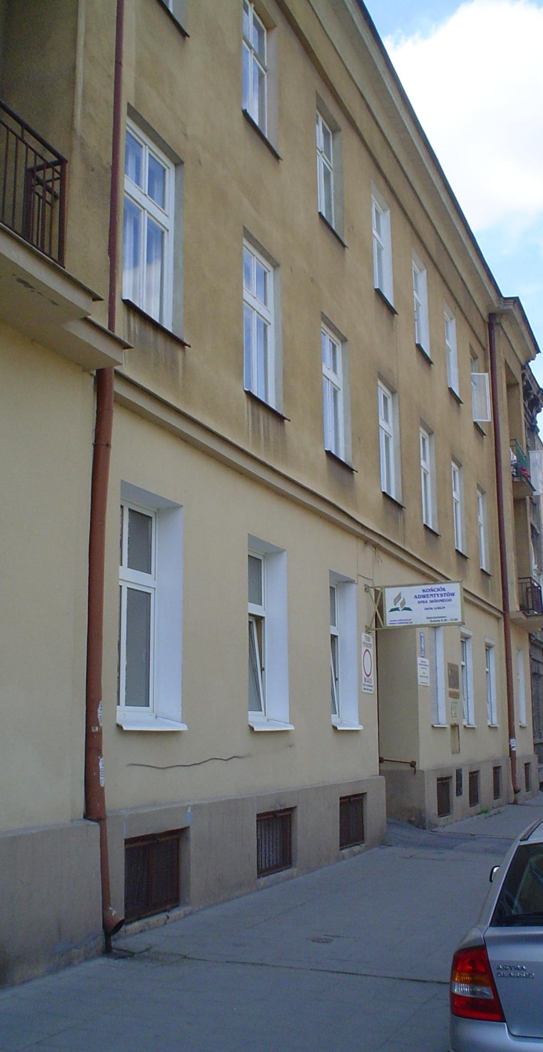 Seventh-day Adventist Church, Lublin, Poland